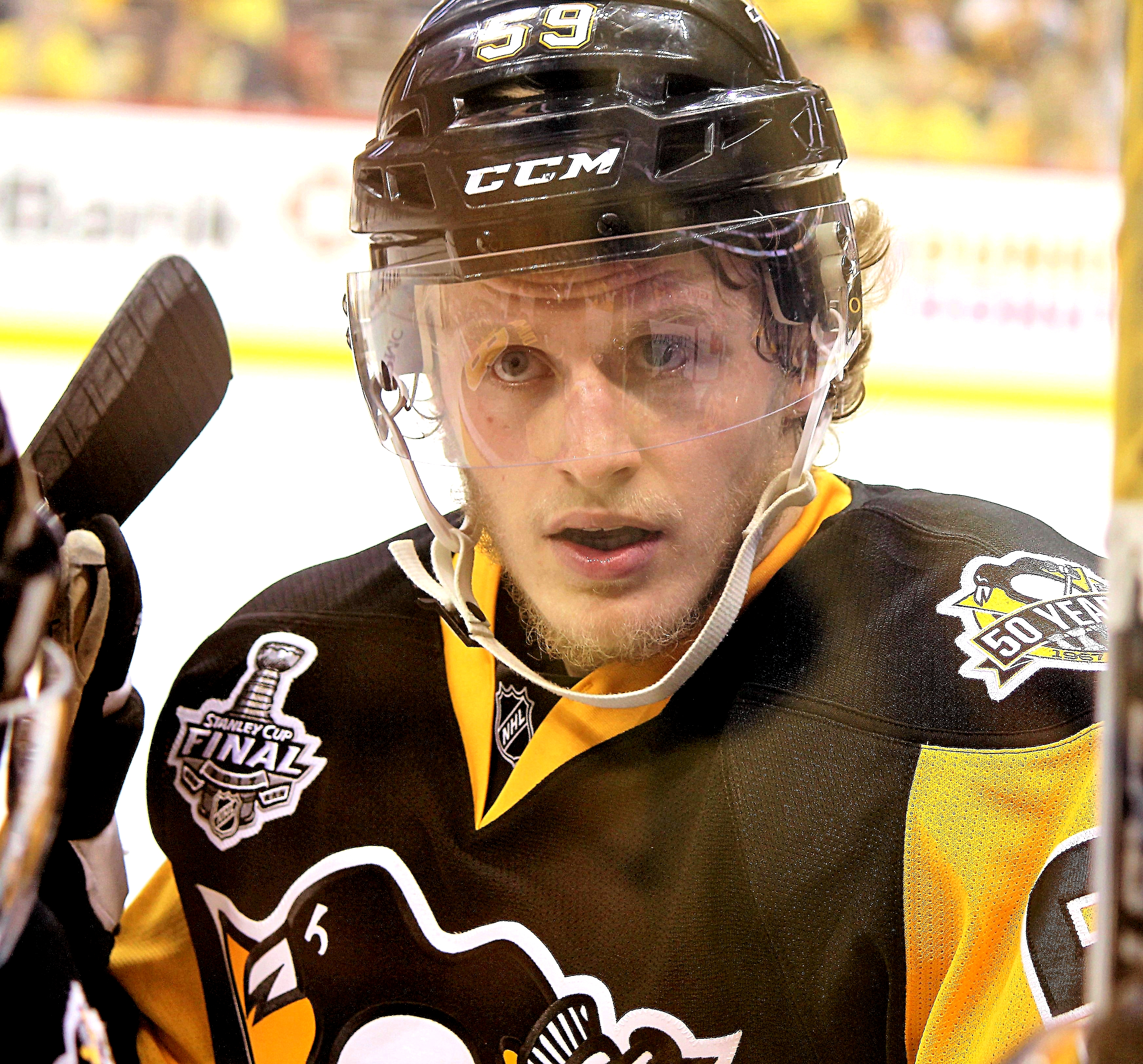 Pittsburgh Penguins forward Jake Guentzel